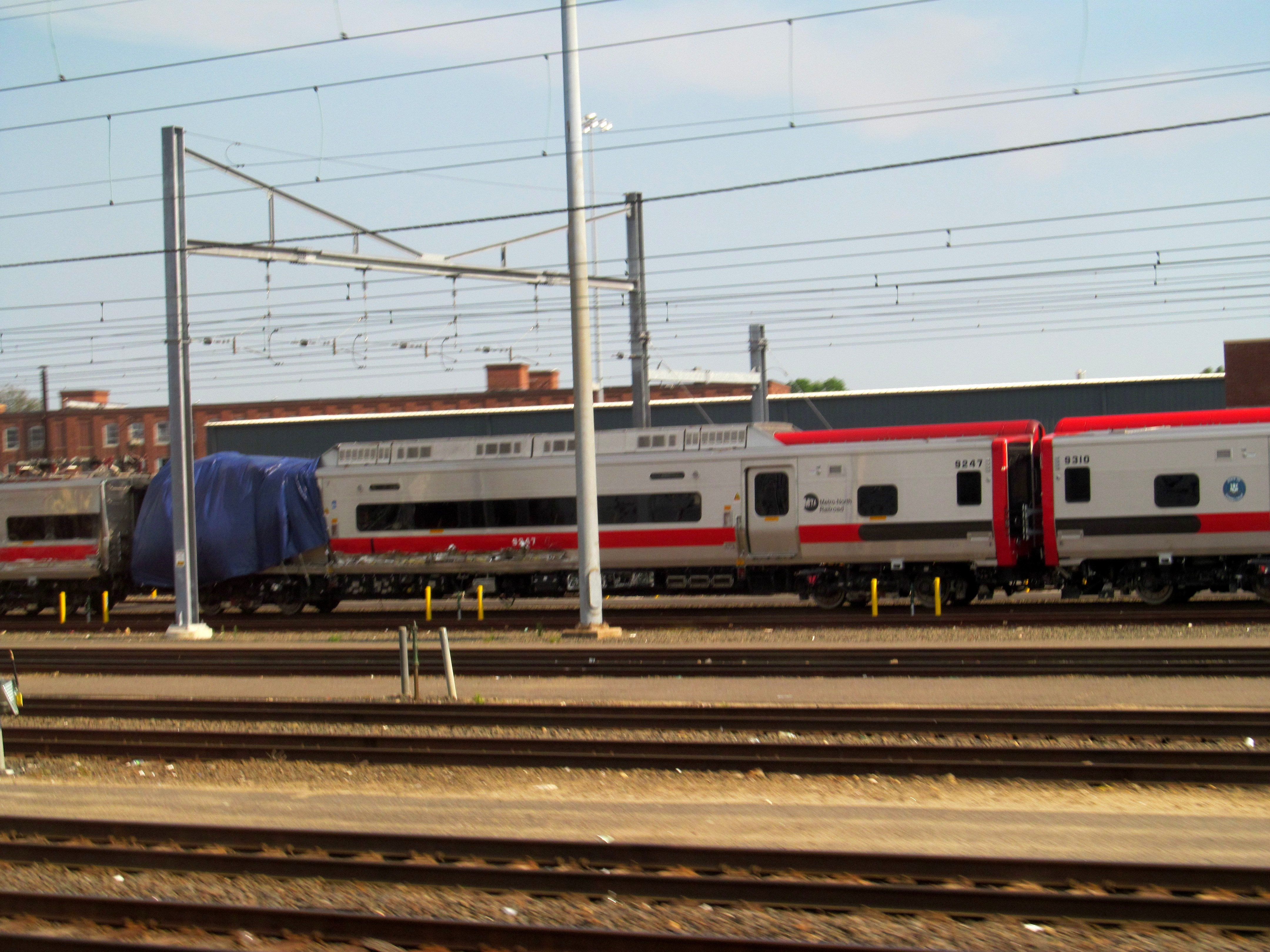 M8 cars #9247 and #9310 in MNRR's Bridgeport yard in May 2013. These cars were damaged in the Fairfield trash crash of May 17, 2013.